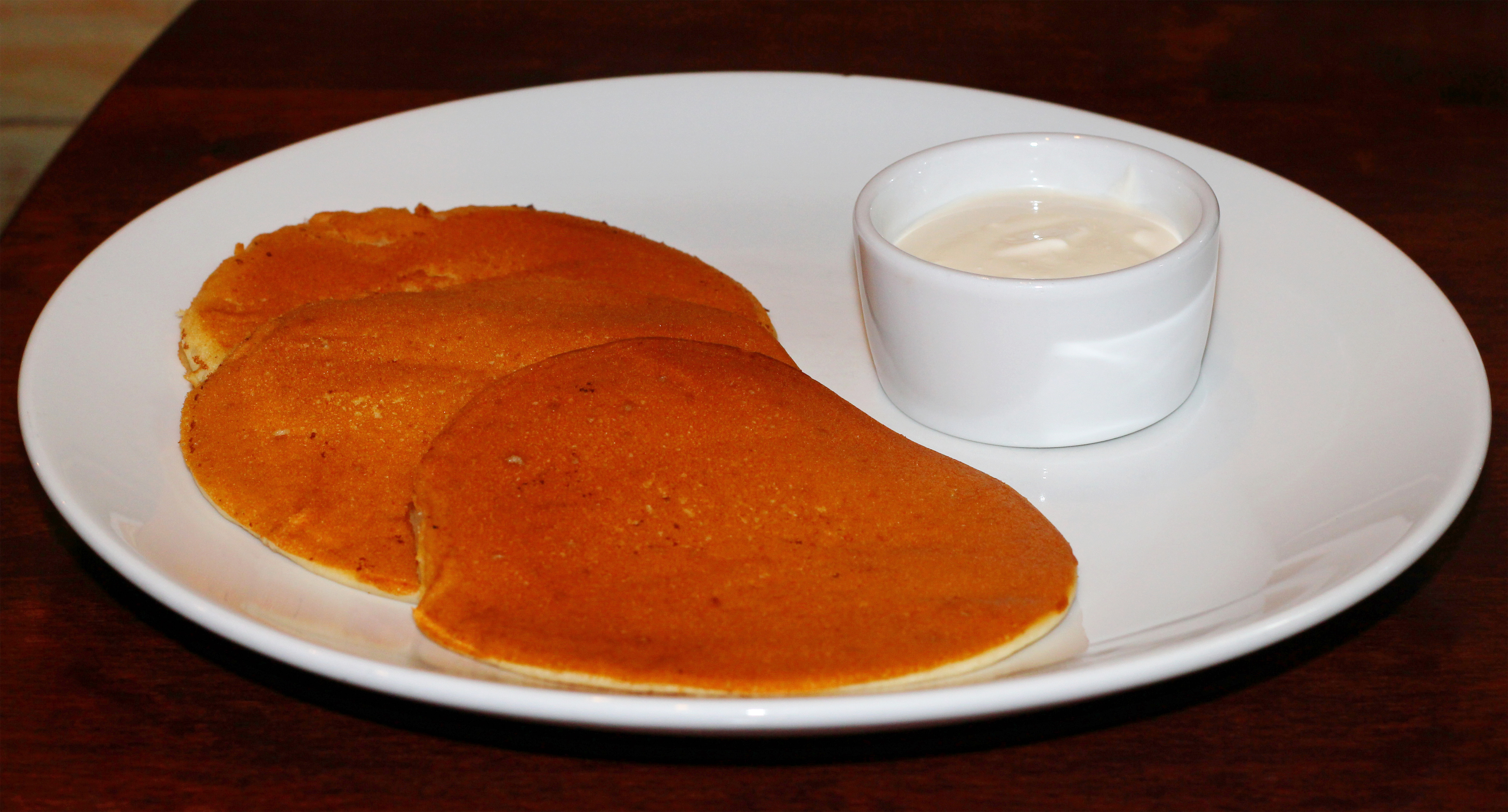 Russian «oladii» (thick pancakes) with sour cream